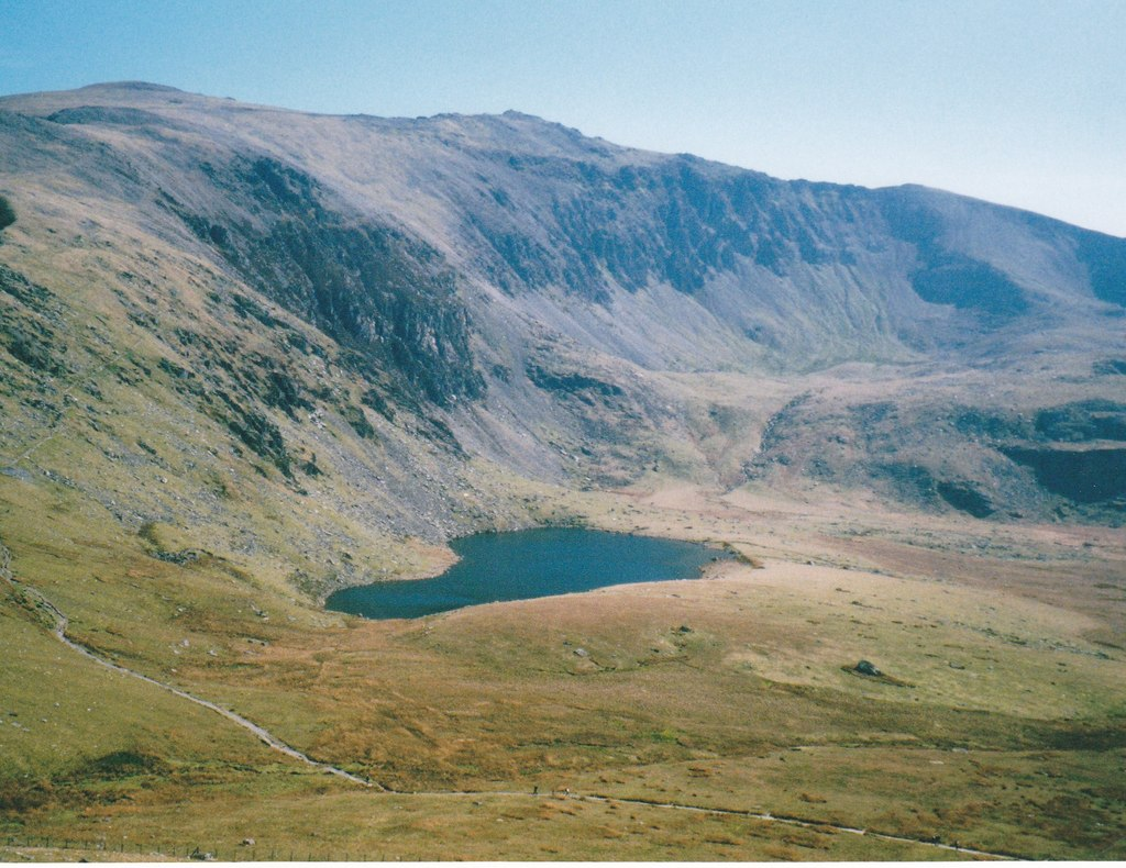 Llyn Ffynnon-y-gwas from Moel Gynghorion Snowdon forms the background. The path in the foreground is the Snowdon Ranger Path